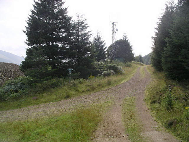 South Laggan Forest track split. Coming from the Great Glen way (behind) with it continuing to the left. Munros to the right!